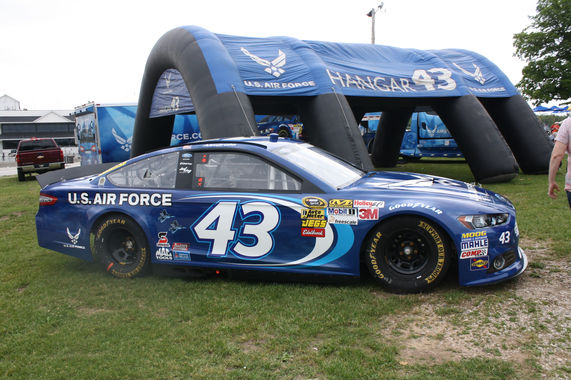 The 2013 NASCAR Sprint Cup car of Aric Almirola on display at the 2013 Johnsonville Sausage 200 Nationwide Series race at Road America.